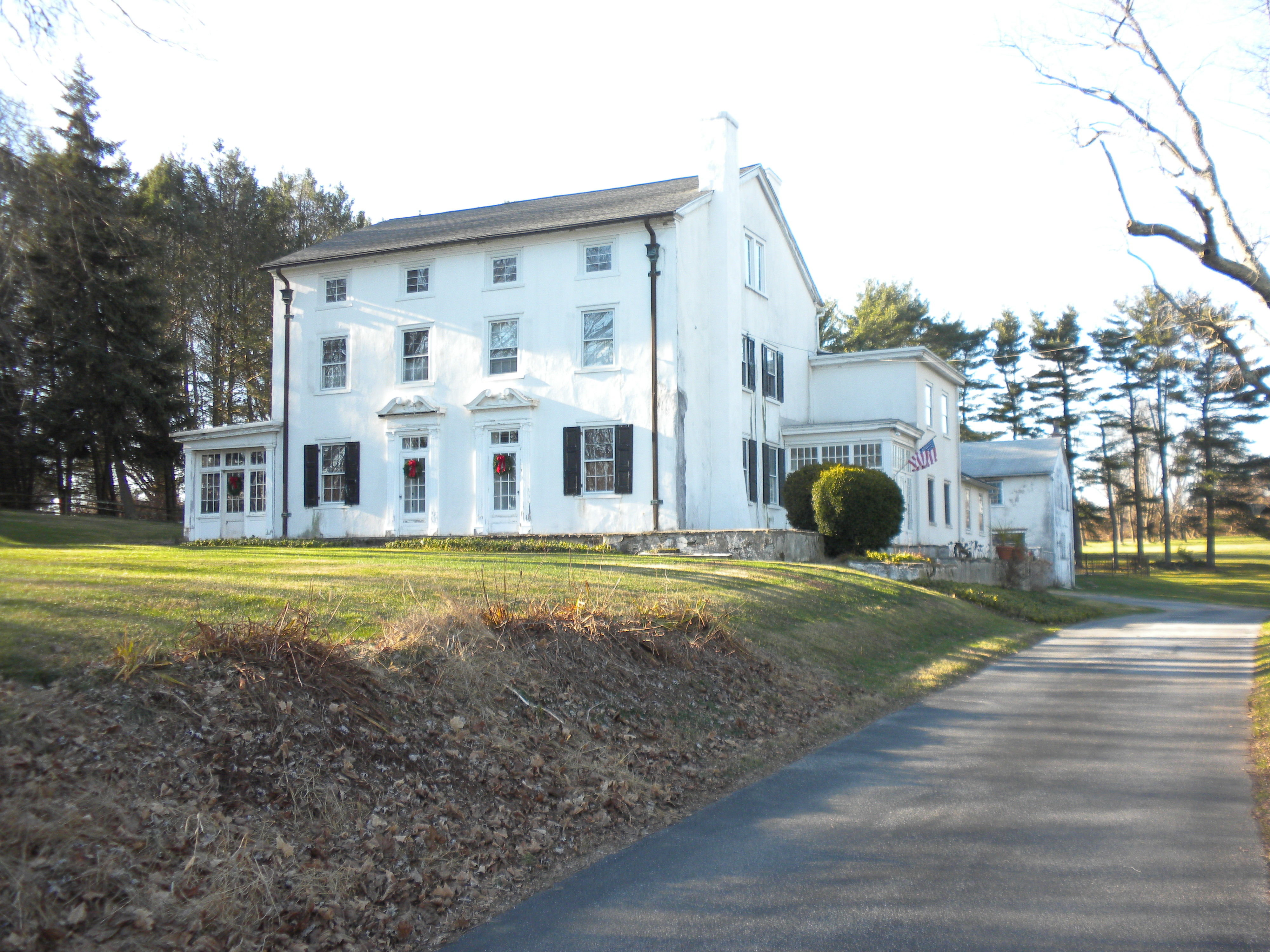 House near Chadds Ford, PA in Chester County on Brinton's Bridge Road. NOT on NRHP as far as I can tell, but the owner should nominate it! My own work donated to the public domain. Note: NOT William Harvey House, my mistake. Nice old house in any case.